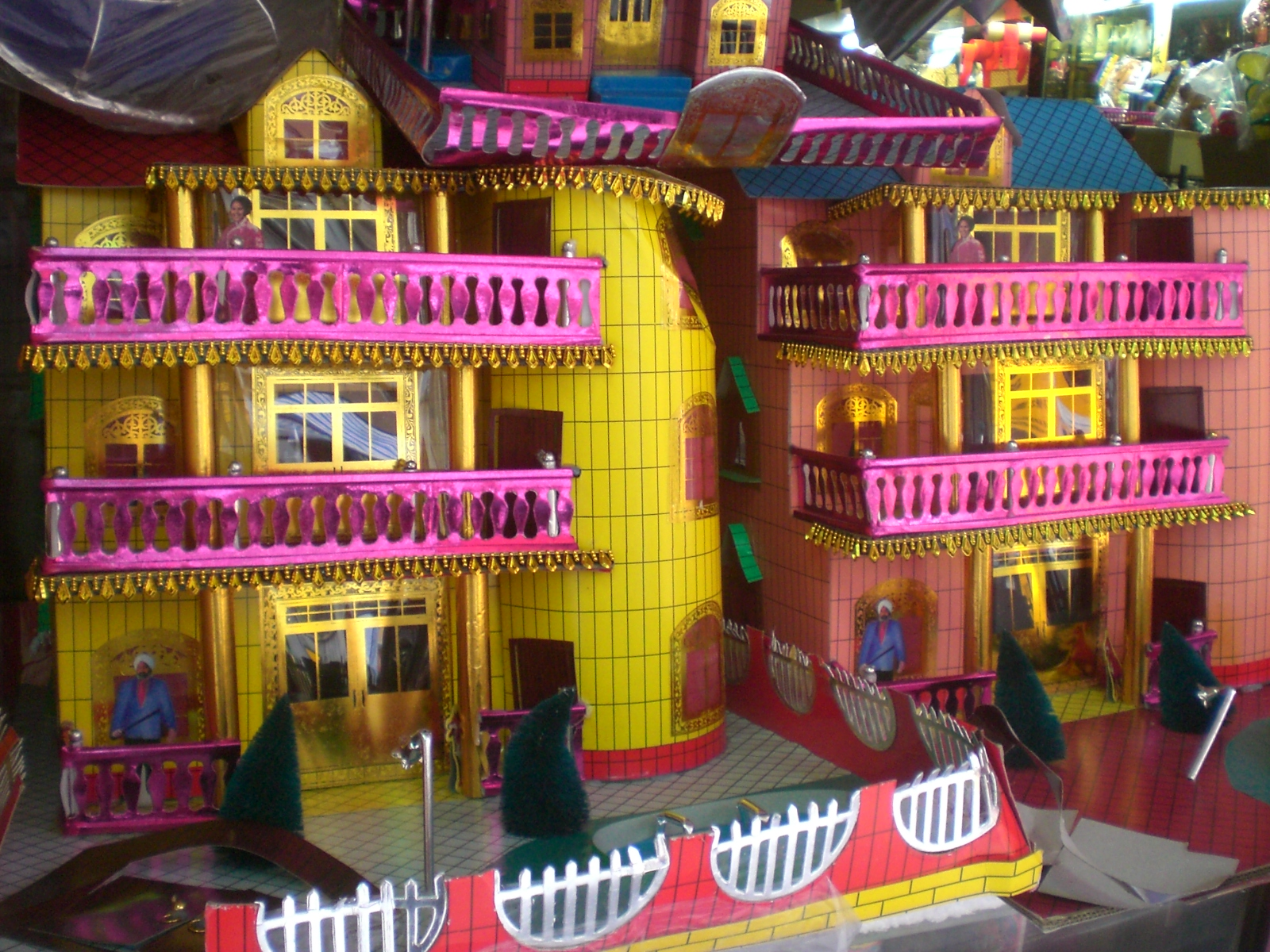 紙紮祭品 - 別墅